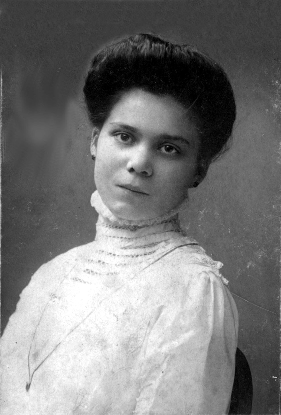 Marie Vobecká (1889-1947), Czech Politican and Activist